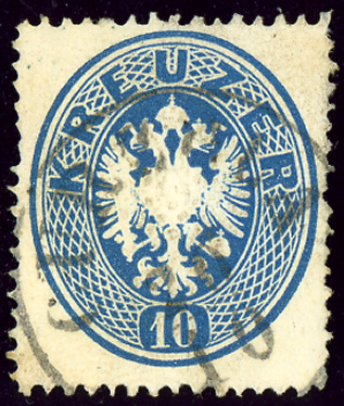 10 kreuzer cancelled ca 1863 at CURZOLA (Croatia) - KK issue IV